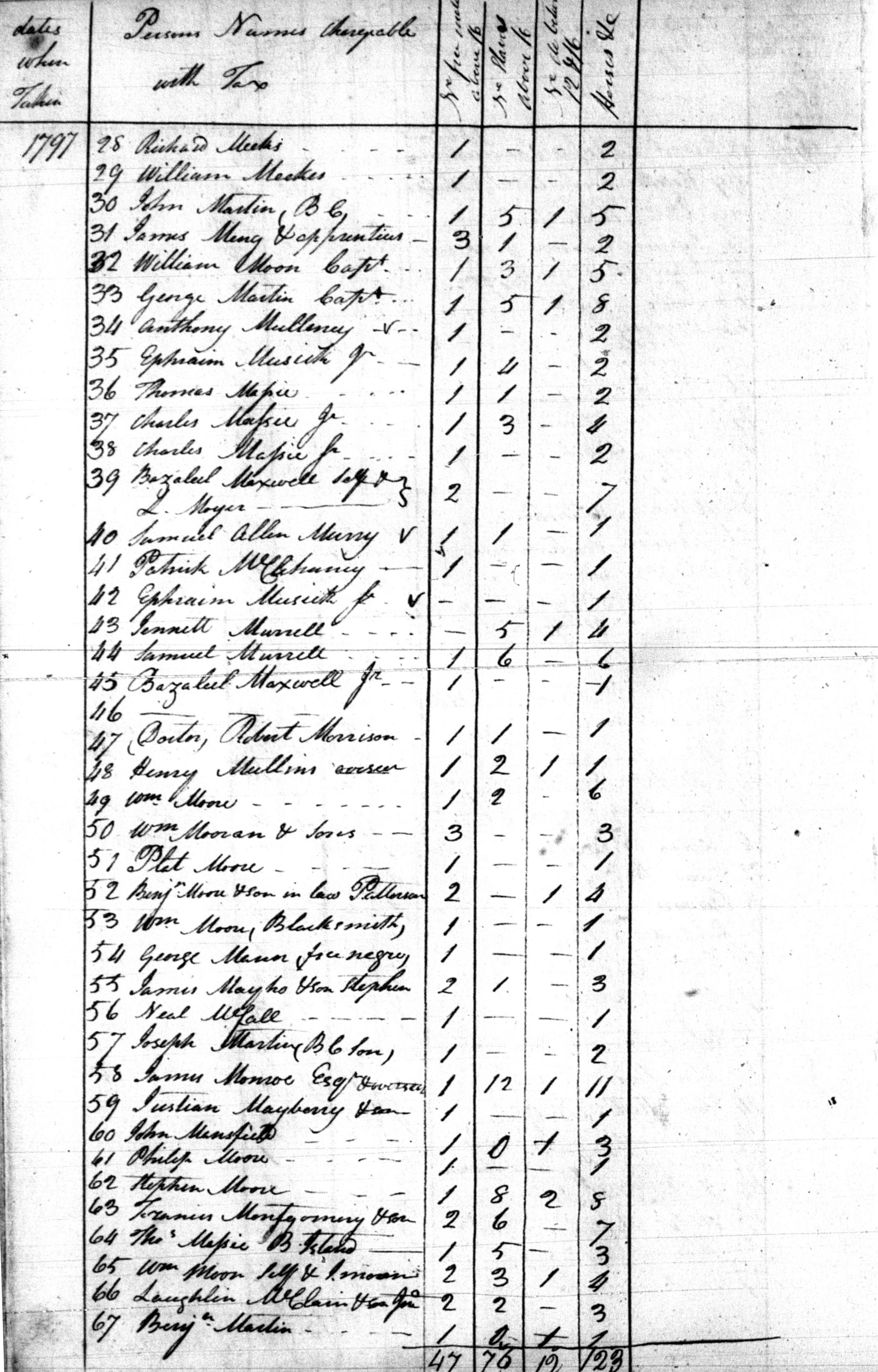 A page of the Property Taxes in Albemarle County from 1797 in Which James Monroe is listed as 1 resident, 12 adult slaves, 1 slave between the age of 12 and 16, and 11horses.